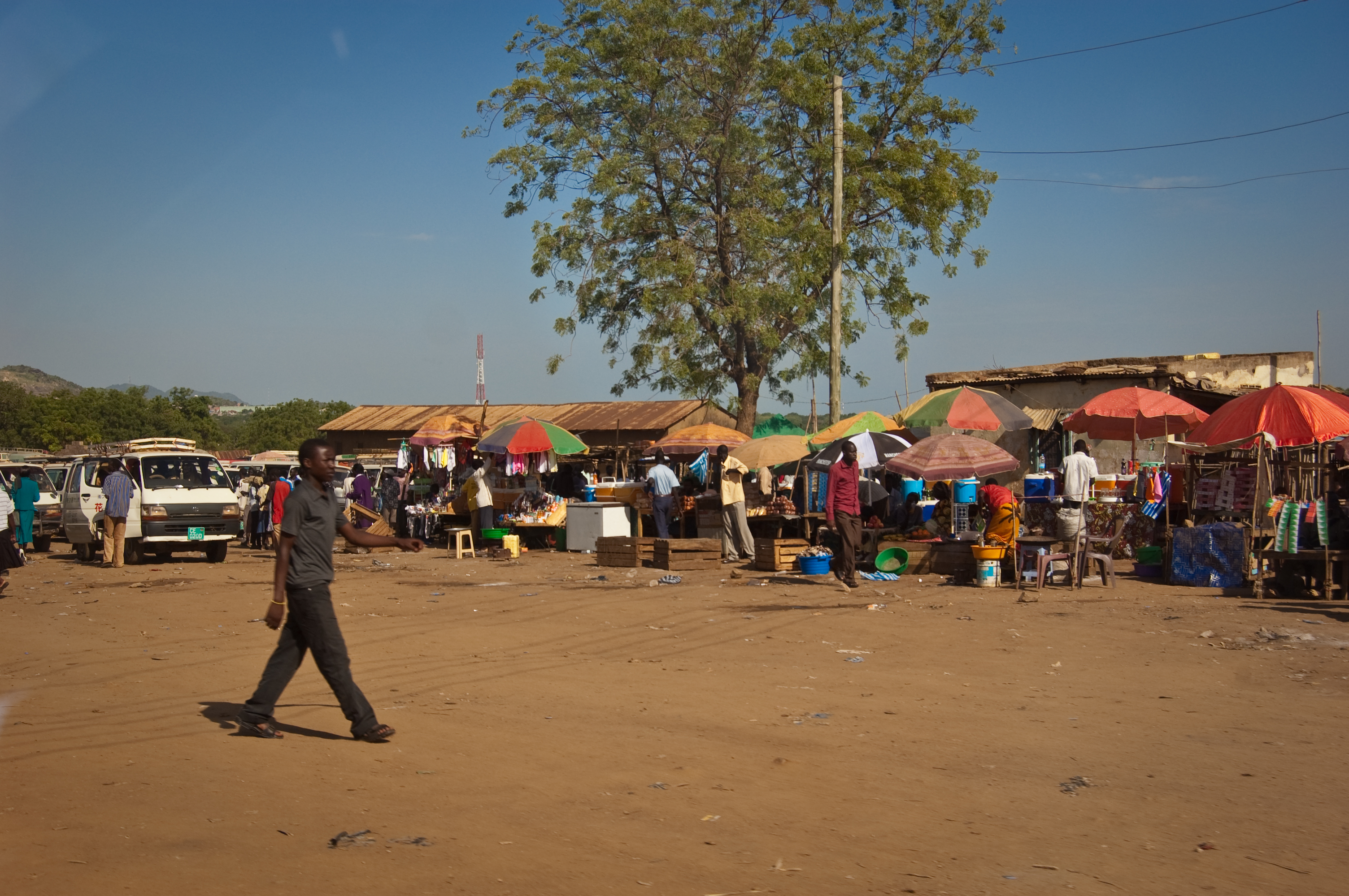 Market in Juba in Southern Sudan, Juba.